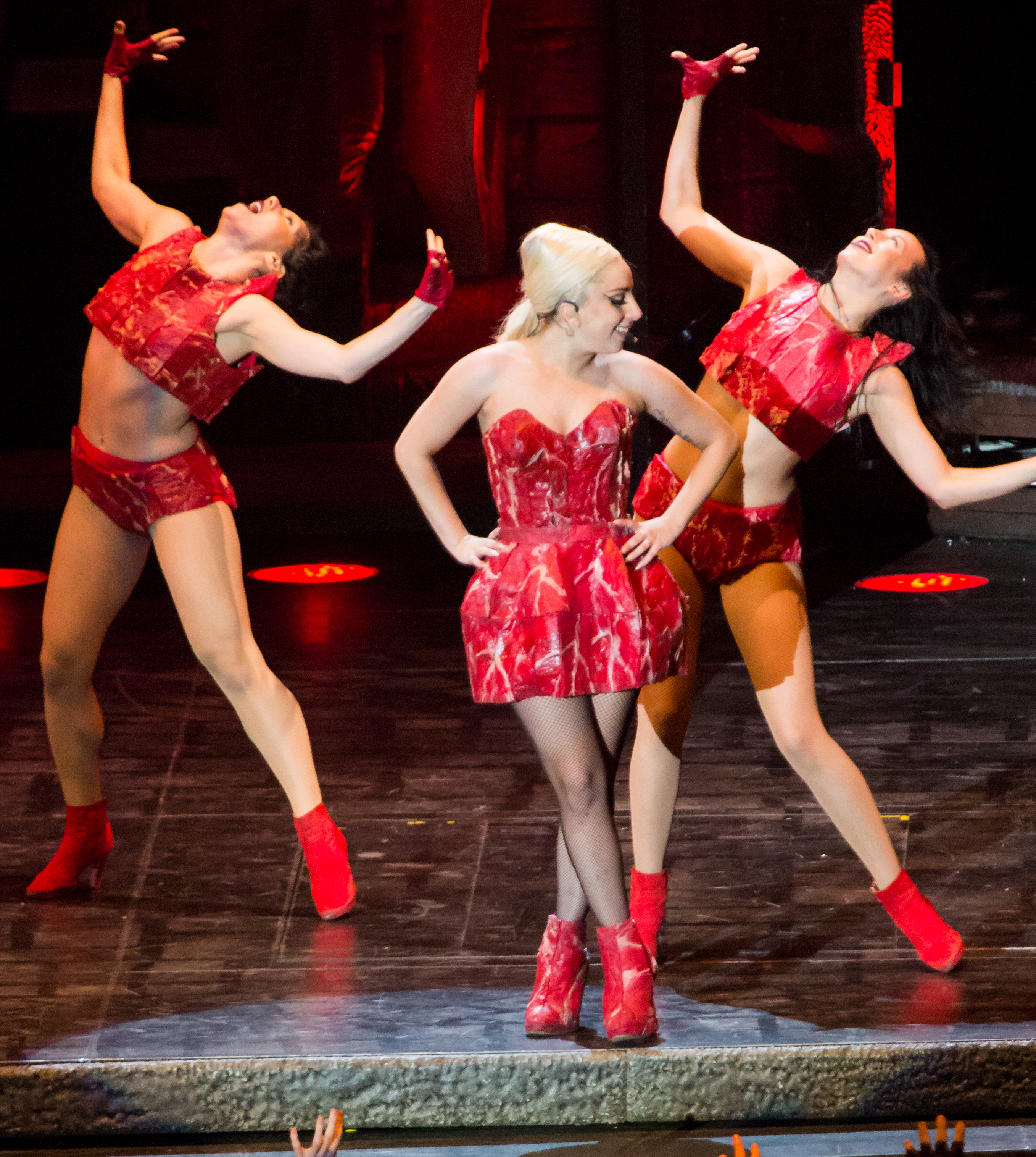 Lady Gaga performing "Americano" on The Born This Way Ball Tour in Manchester, UK.